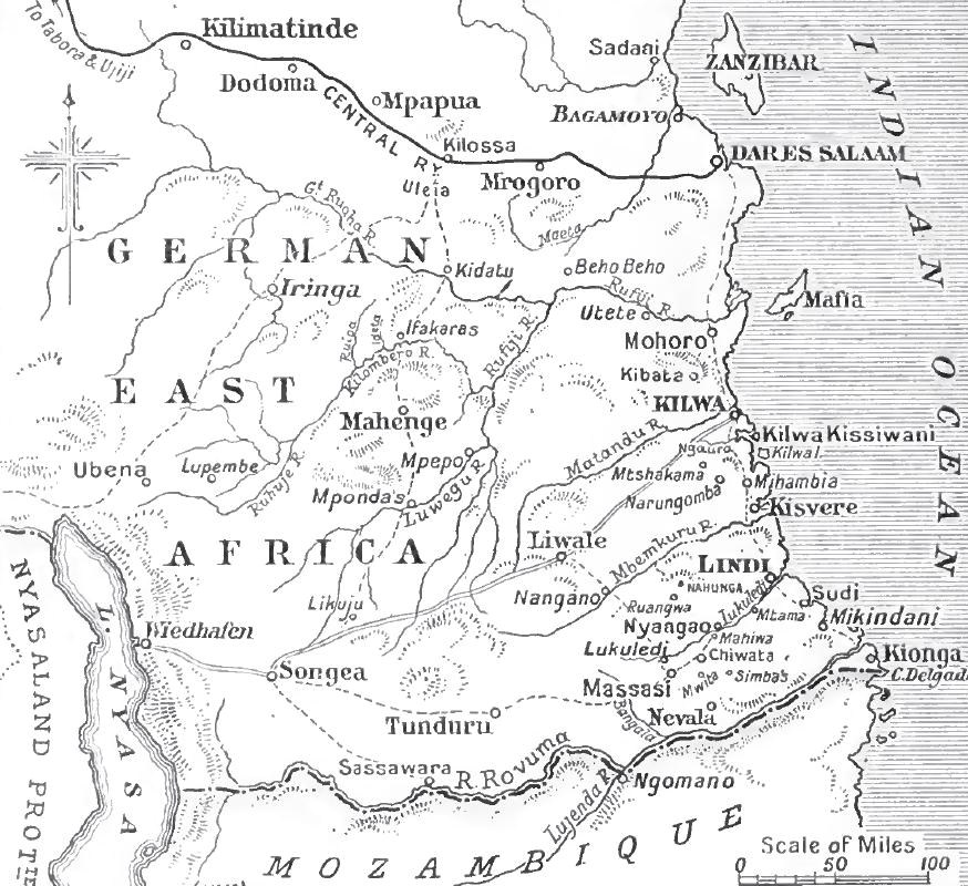 Map of German East Africa (south)